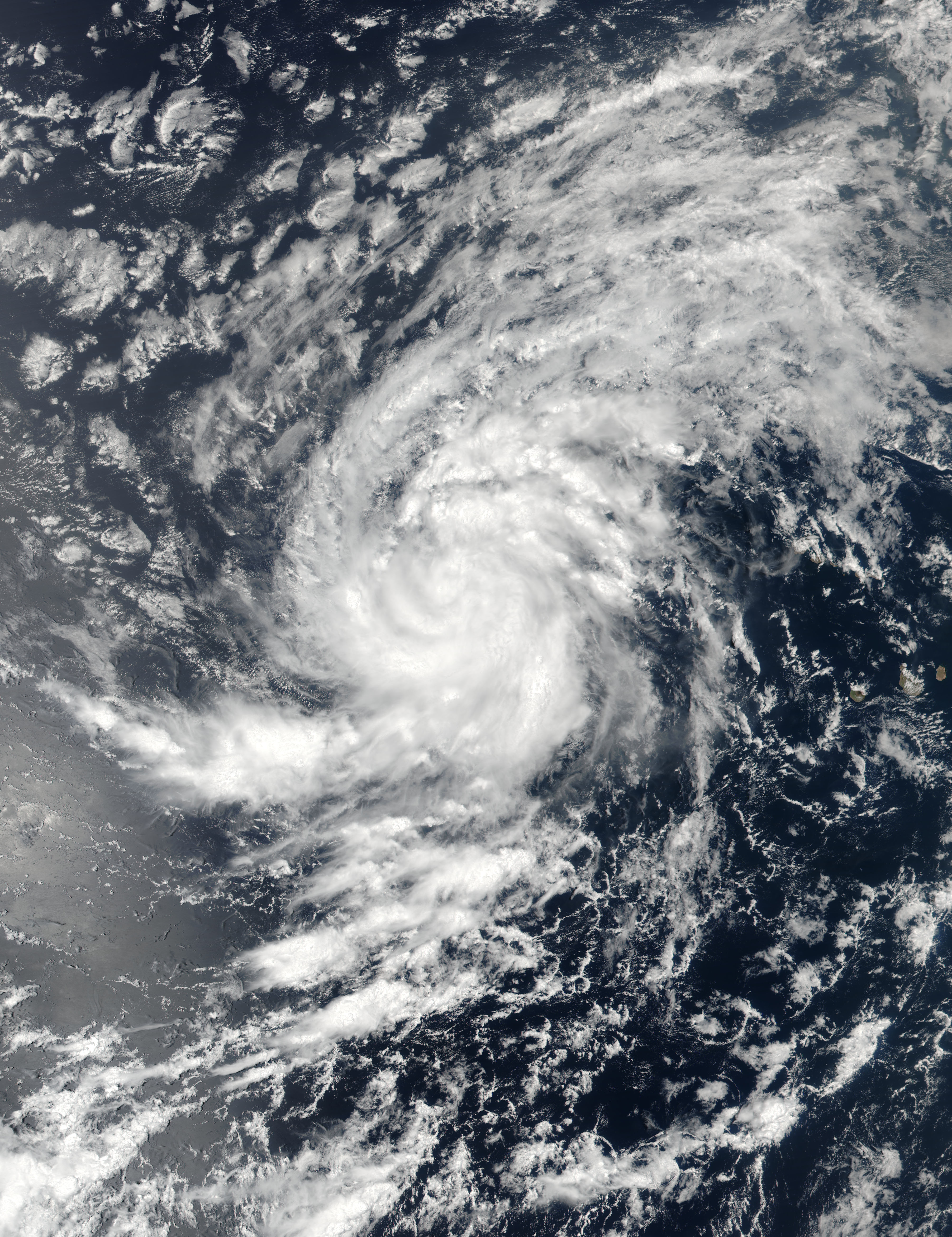 Tropical Storm Irma (11L) in the Atlantic Ocean